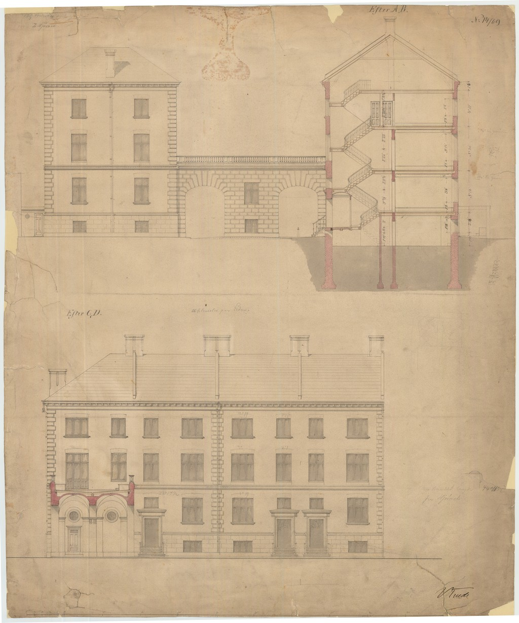 Rendering of De Engelske Rækkehuse in Toldbodgade in Copenhagen, Denmark